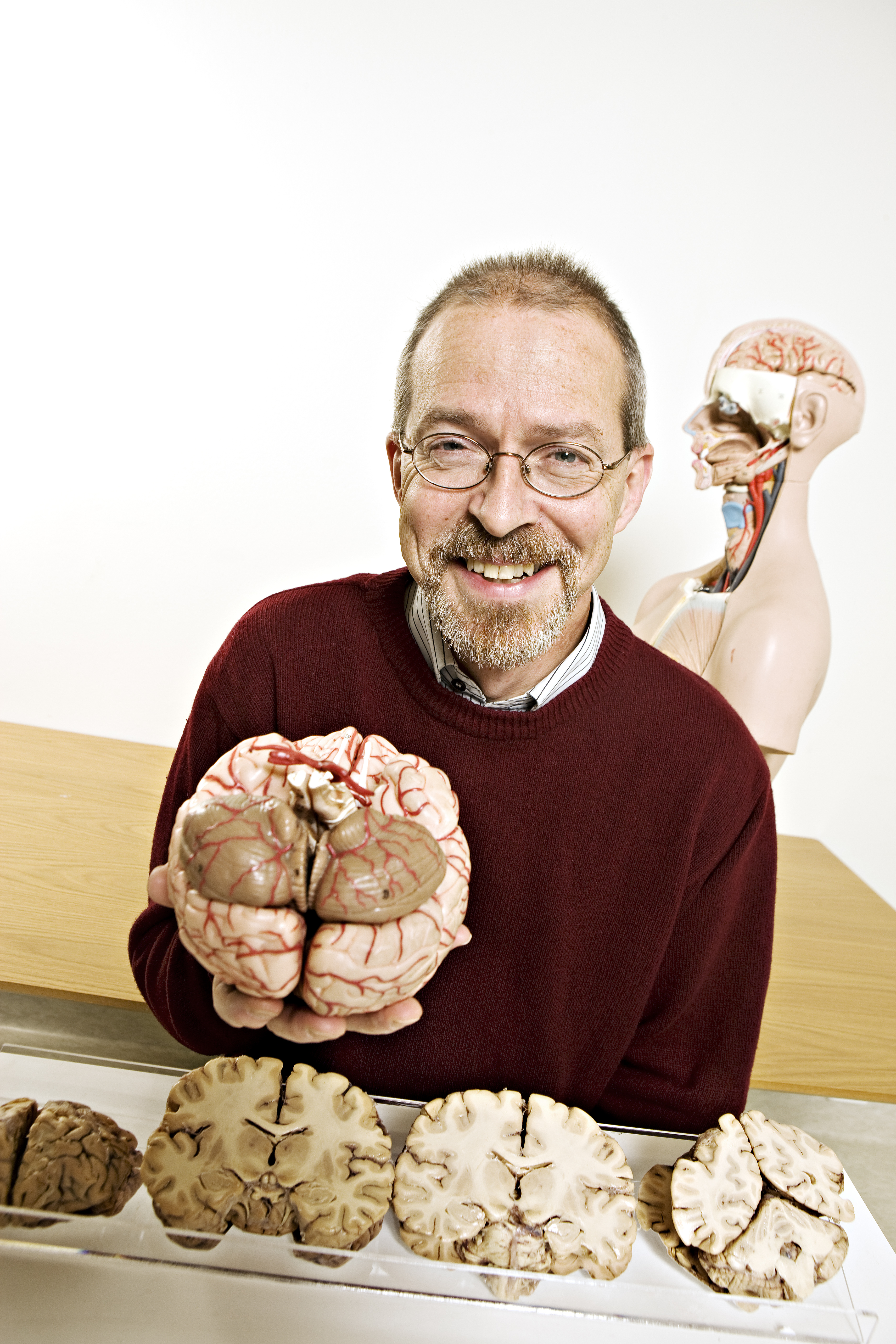 Menno P. Witter; see Home page